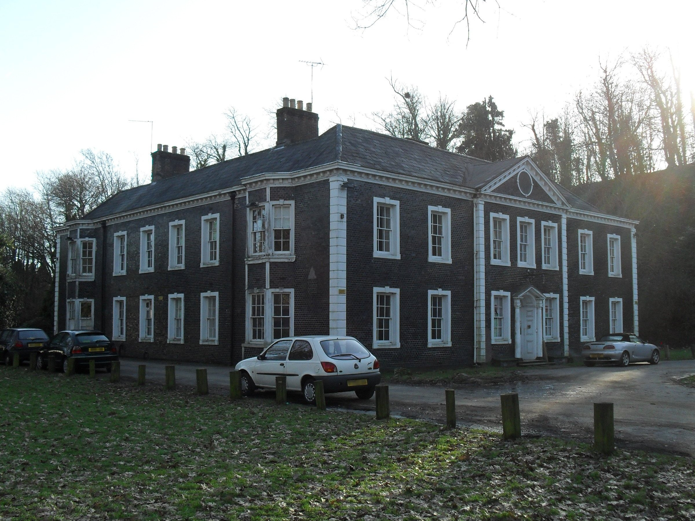 Patcham Place, London Road, Patcham, City of Brighton and Hove, England. Built in 1764; latterly used as a youth hostel, but disused as of 2010. Listed at Grade II* by English Heritage (IoE Code 482049)